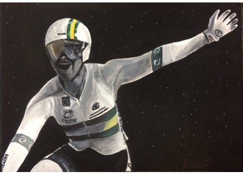 Painting done by Rikki Belder